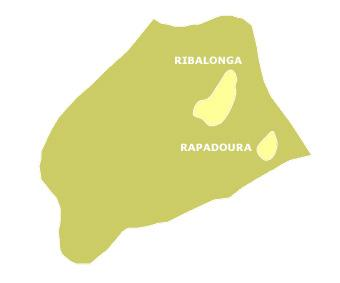 Ribalonga bords on Rapadoura.